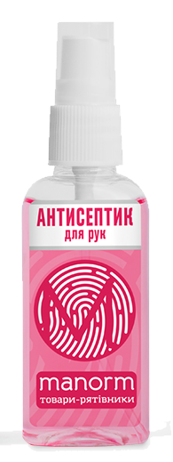 This is a photo of a "Manorm" hand sanitizer, that is produced by company Vik-A in Ukraine